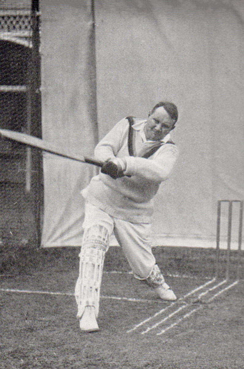 H. T. Hewett demonstrating an on-drive. The photo shows the batsman finishing the shot.